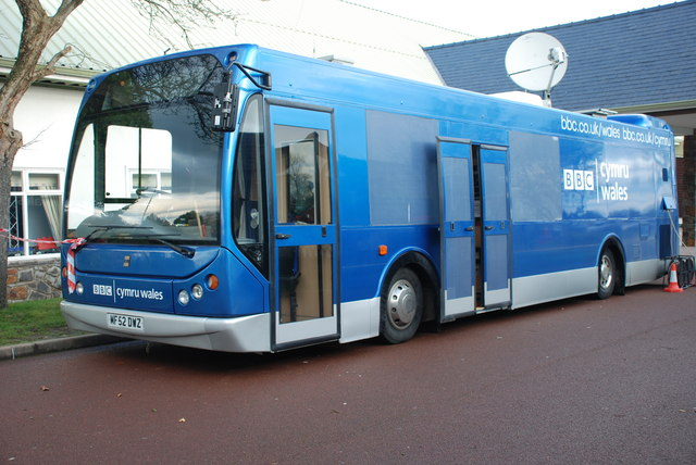 Diwrnod Agored BBC Cymru Wales Open Day The BBC Cymru Wales Roadshow visited Hafan y Môr on Sunday 29 November 2009.